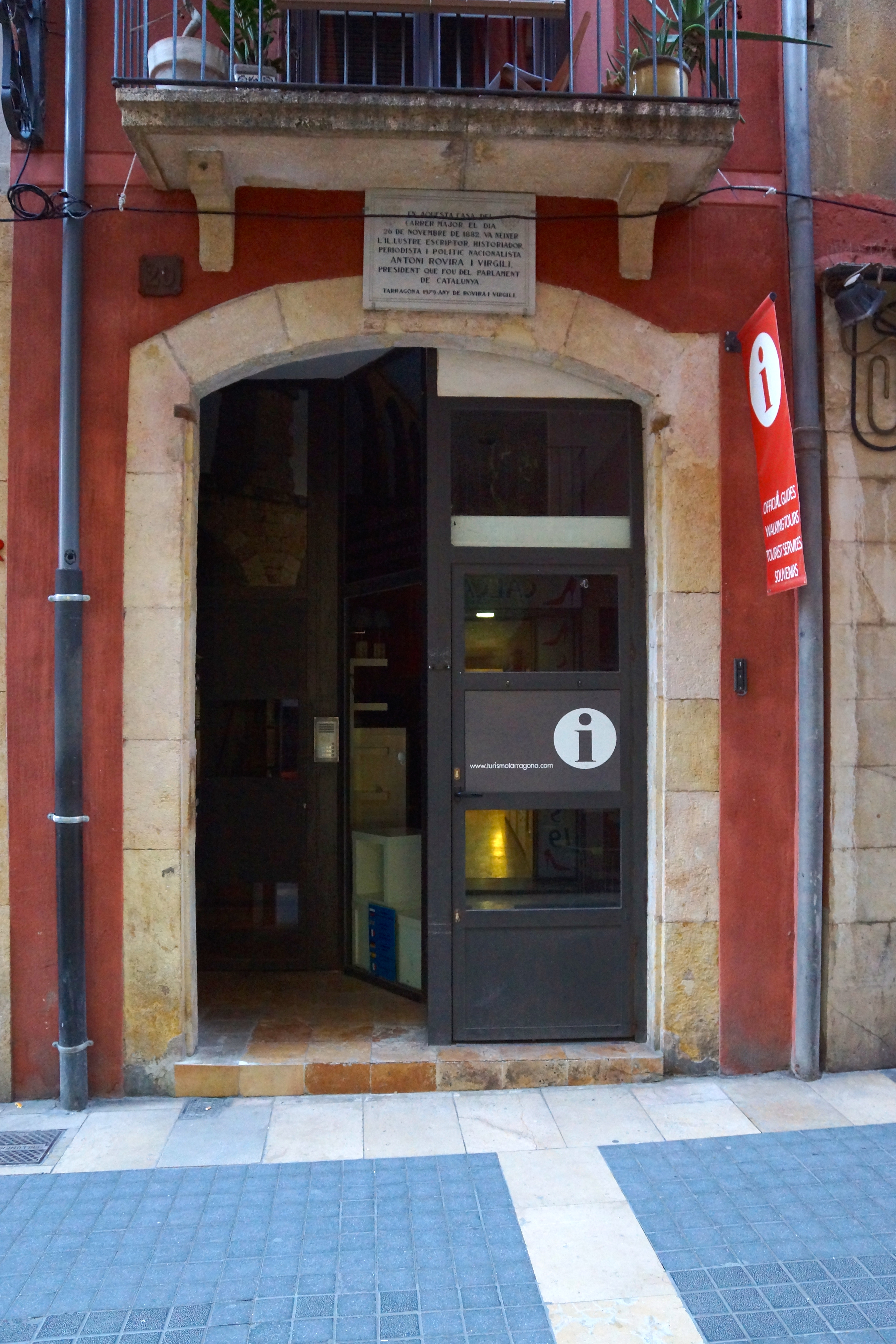 Tarragona, Catalonia: The birth's house of the writer and politician Antoni Rovira i Virgili, now tourism office of the city